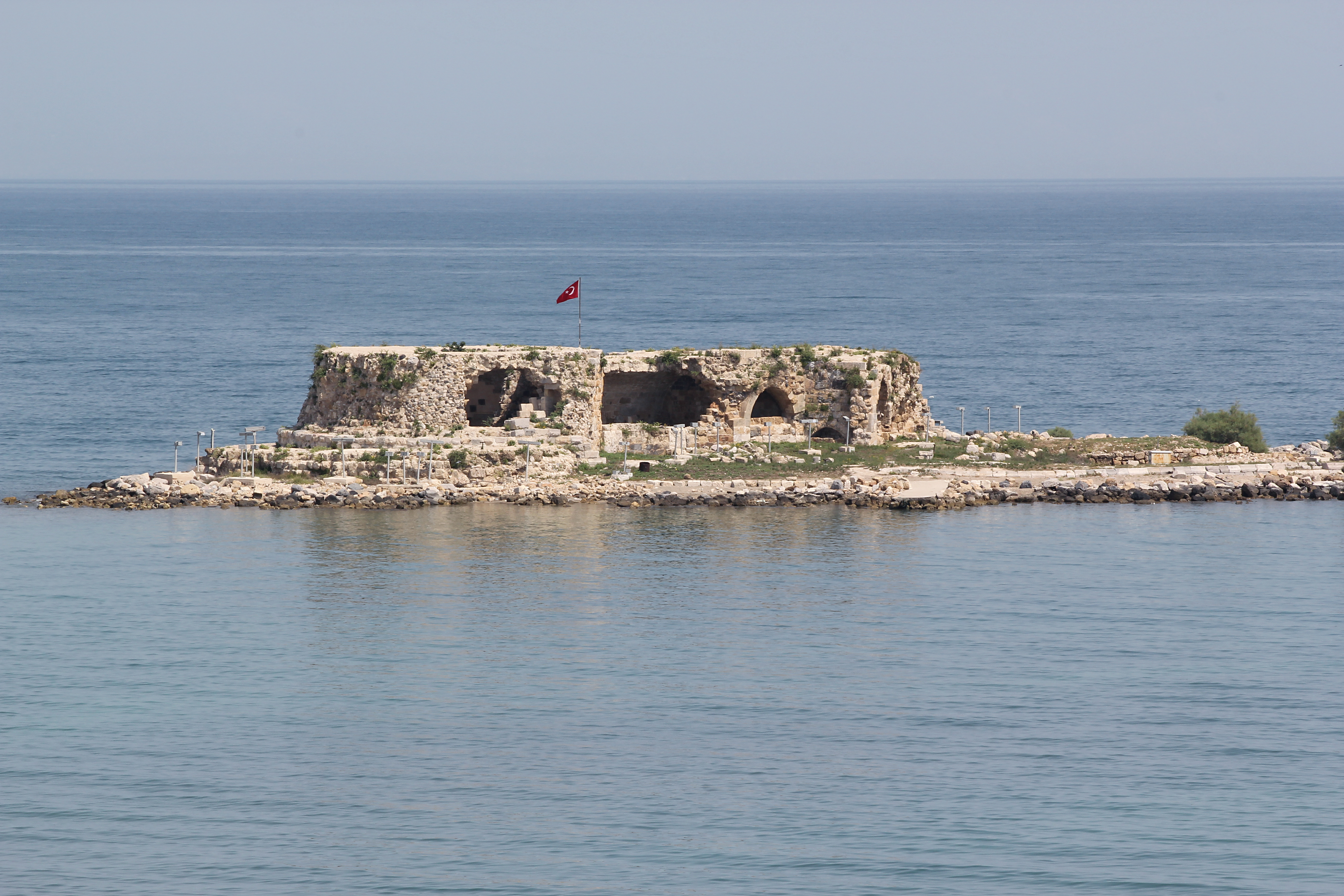 Yumurtalık, Kreisstadt in der Südtürkei, Seeburg (Ayas Kalesi)